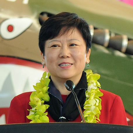 President of the Chinese People’s Association for Friendship with Foreign Countries, and daughter of former Chinese President Li Xiannian, Madame Li Xiaolin, speaks to an audience during an event celebrating the legacy of the U.S.-China friendship, held at the Pacific Aviation Museum, Ford Island, Hawaii, Jan. 30, 2012. During the event, Madame Li presented her film documentary, Touching the Tigers, which tells the story of the late ‘Flying Tigers’ pilot Lt. Glen Beneda. Beneda was a fighter pilot with 14th Air Force, who was shot down and wounded while defending China from Japanese forces during World War II. The documentary also details how Chinese farmers and soldiers helped Beneda escape capture before he was returned to a U.S. air base for medical care. (U.S. Air Force photo/Tech. Sgt. Jerome S. Tayborn/Released)